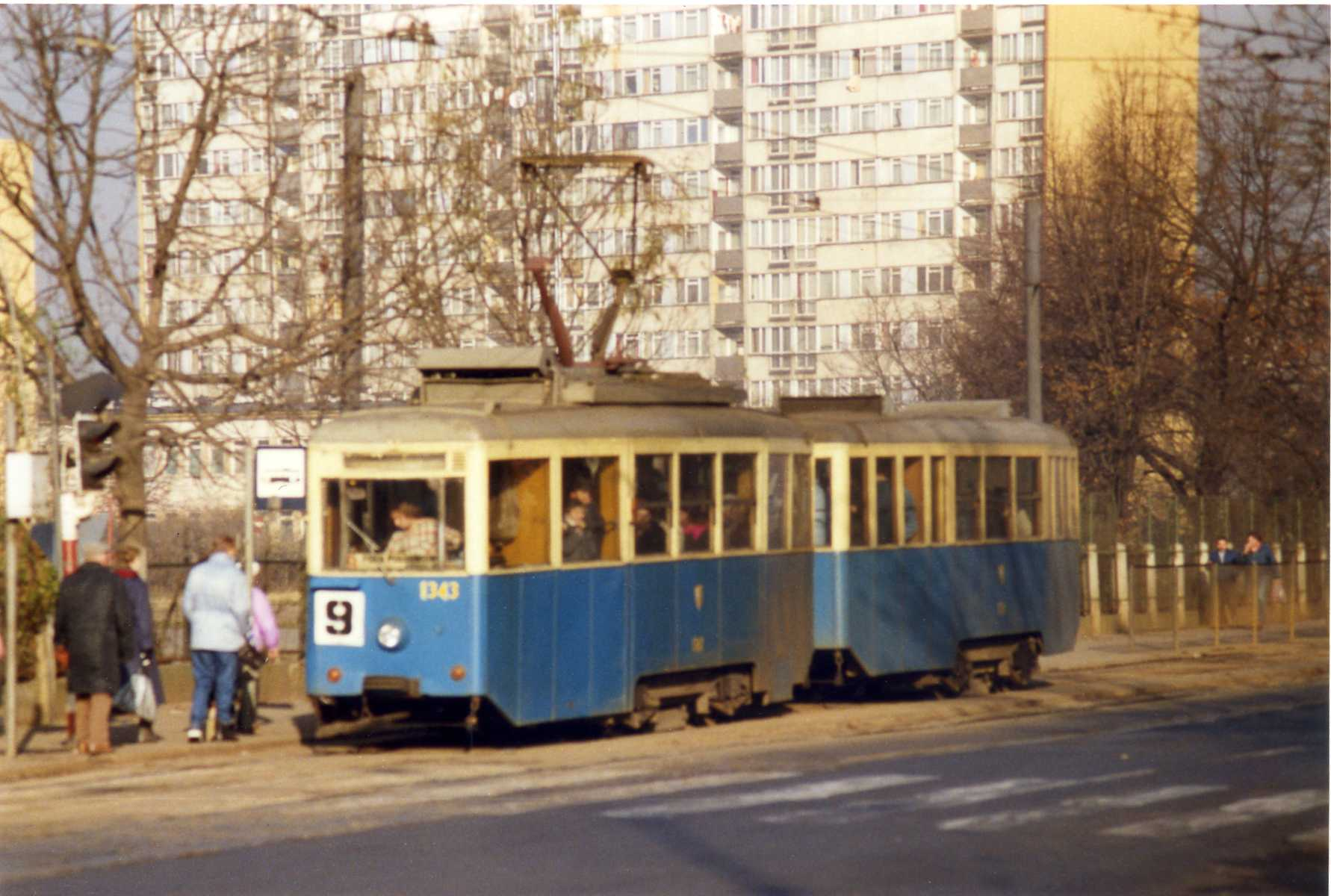 Konstal N cars were still in service in significant numbers in 1989, along with the fine 102Na and 105Na units. #1343 is on route 9. Trams in Wroclaw were prominently numbered, and along with those of Cracow, carried a blue livery. Elsewhere, apart from Poznan's green, all trams in Poland were a dark red.